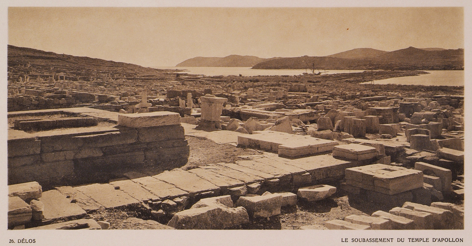 Frédéric Daniel Boissonnas Baud-Bovy. Des Cyclades en Crète au gré du vent, Geneva, Boissonnas & Co, 1919.